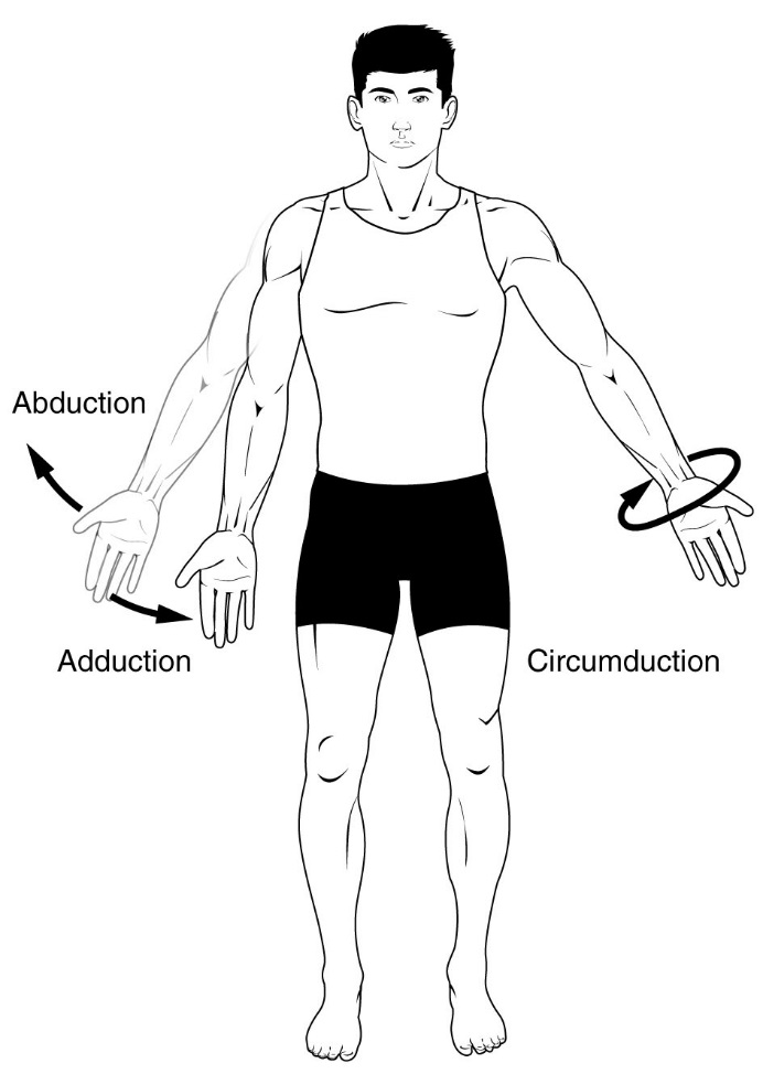 Abduction and adduction, and circumduction.